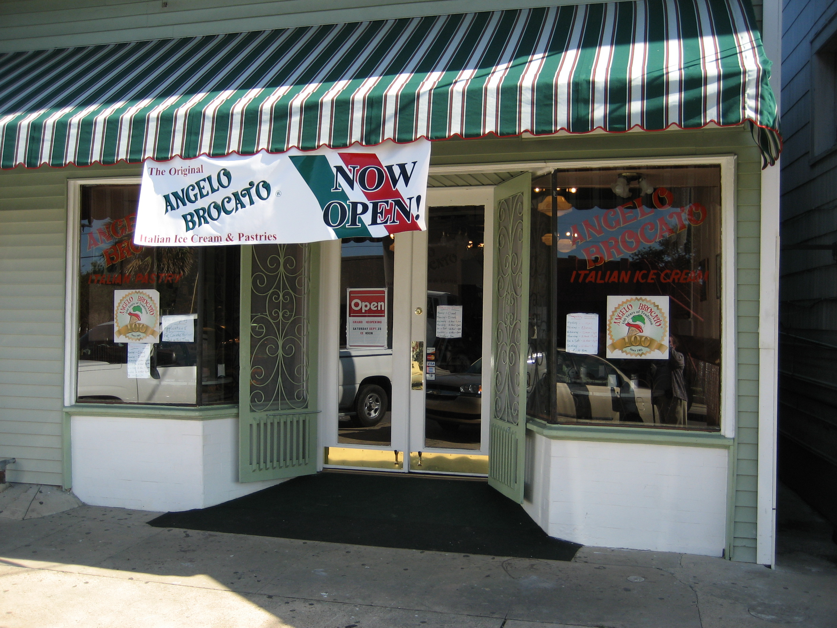 New Orleans: Locally famous Angelo Brocato's is again open, over a year after severe flooding due to the Federal levee failures during Hurricane Katrina.